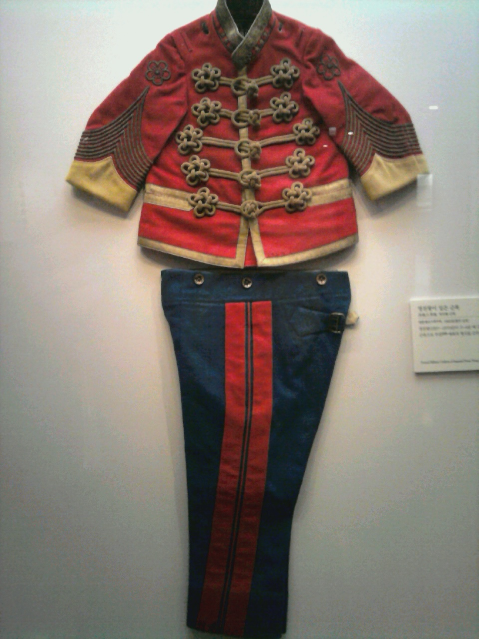 Court uniform of Crown Prince Yi Un on display in Gyeongbokgung, Hanseong